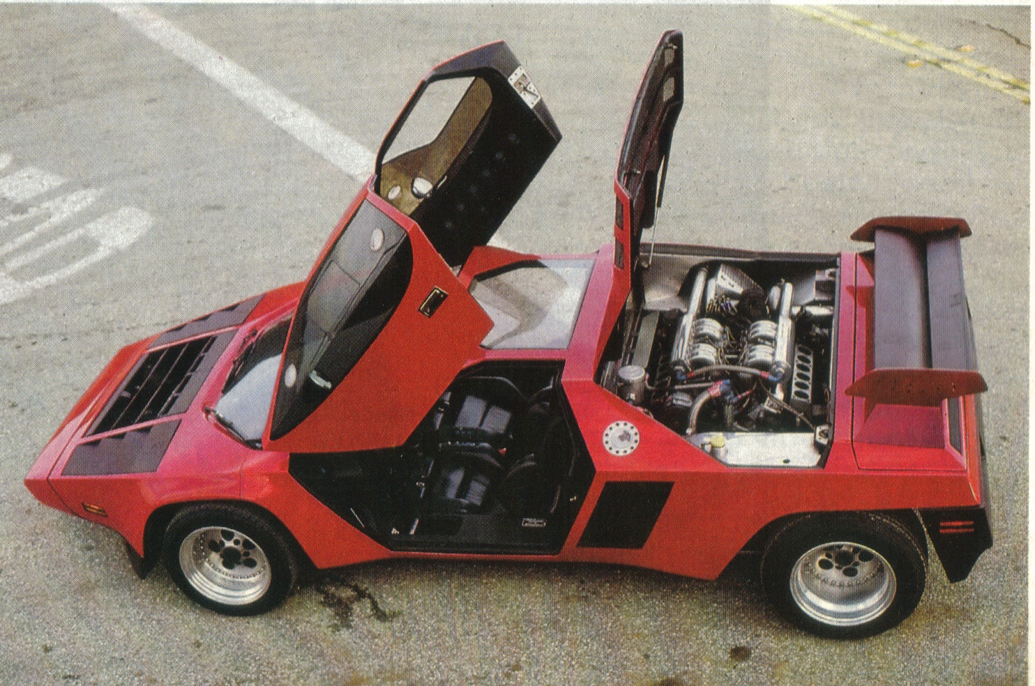 Vector W2 in red, shot for Mr. Wiegert in the early eighties